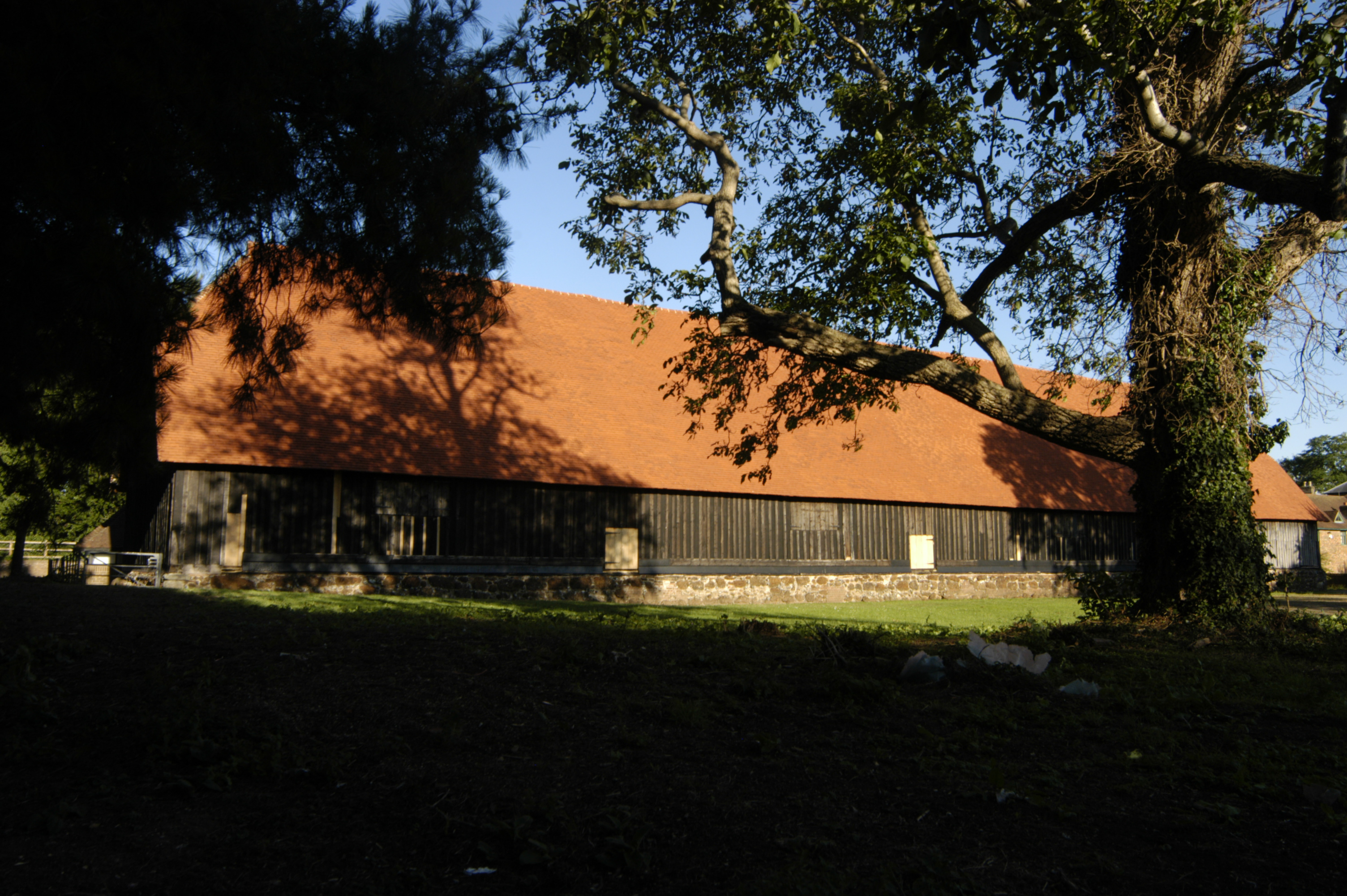 Photograph (by me, R. de Salis, Rodolph (talk) 13:01, 20 July 2015 (UTC)) of the north-westerly view of the Harmondsworth Great Barn, western Middlesex, July 2015.